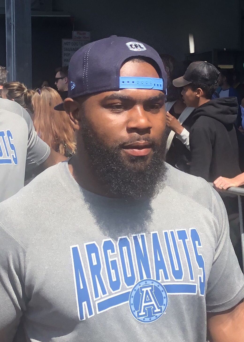 Eric Striker, linebacker for the Toronto Argonauts.